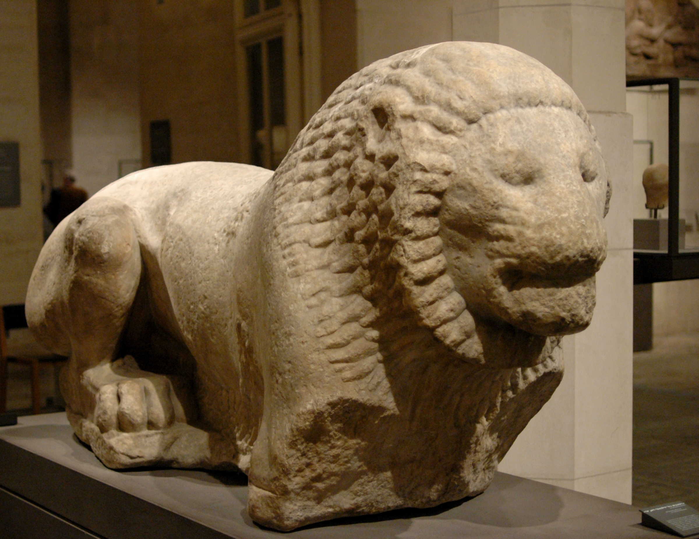 Funerary lion. Marble, end of the 6th century or beginning of the 5th century BC. From the necropolis of Miletus.